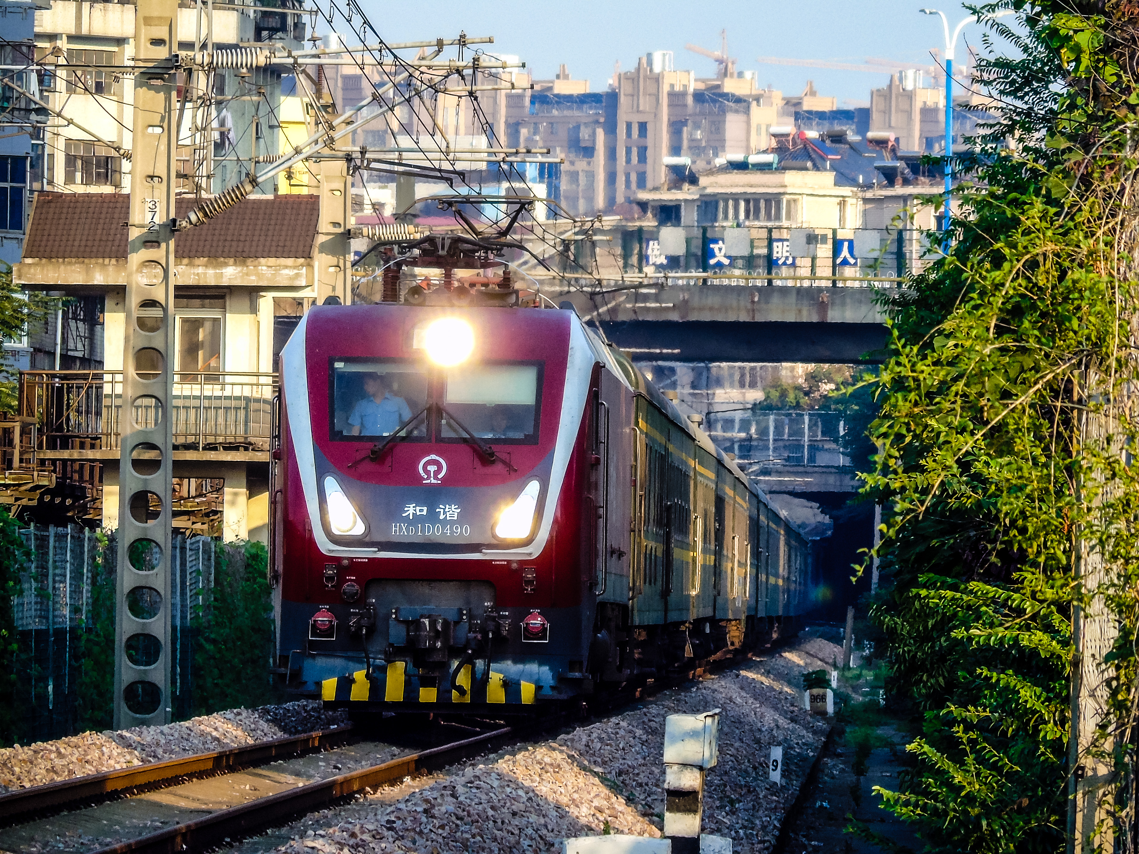 HXD1D-0490 Hauls T114 at Bengbu